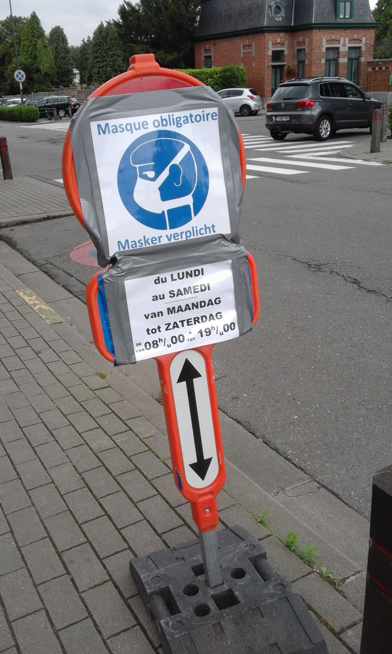 Portable sign showing that the mask is mandatory, in French and Dutch, during the end of the lock-out period, in Woluwe-Saint-Lambert, in Brussels Region, in Belgium, during the covid-19 pandemic